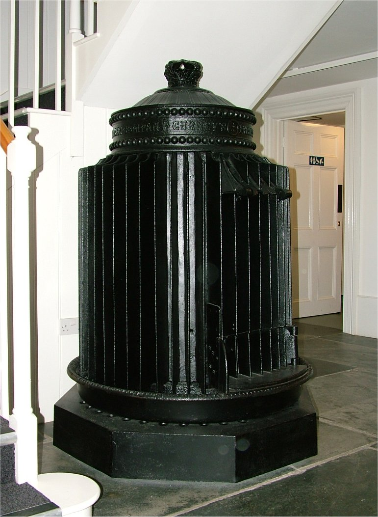 An example of a Gurney Stove, a type of solid fuel burning central heating stove invented by Goldsworthy Gurney, patented in 1856, and used in large buildings such as cathedrals. Some are said to be in use to this day. Photographed with permission at The Castle, Bude, Cornwall.